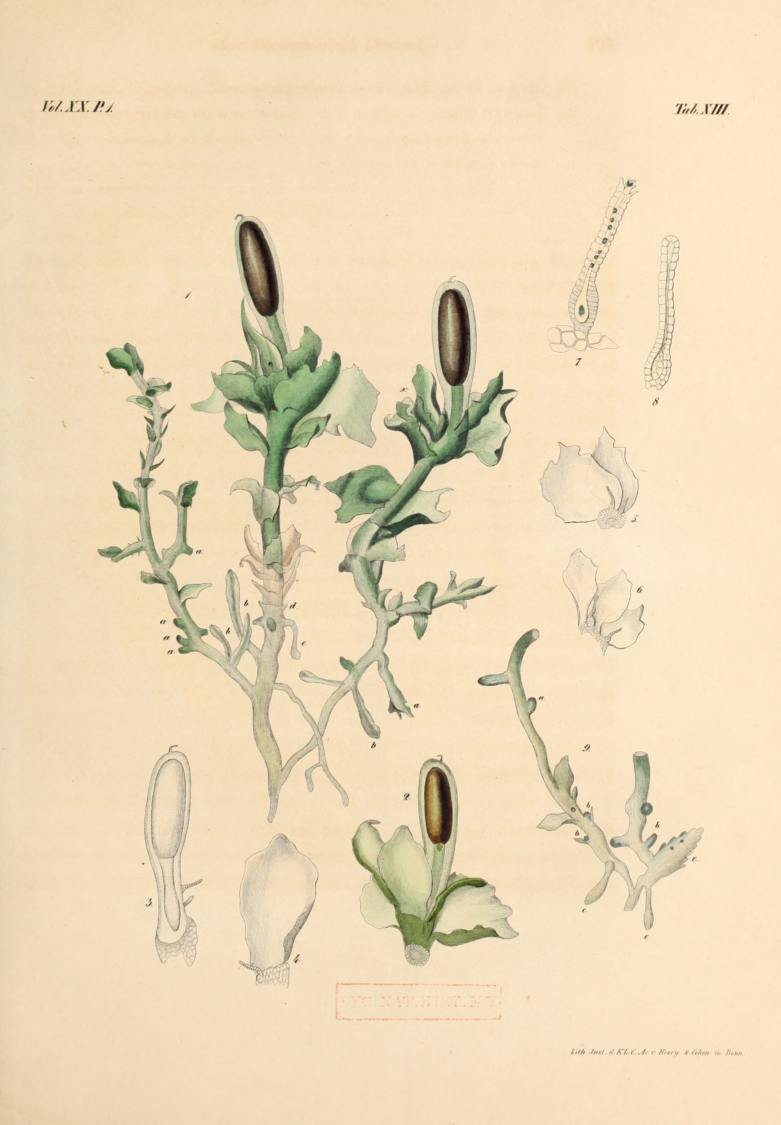 Plate XIII of C. M. Gottsche (1843) "Anatomisch-physiologische Untersuchungen über Haplomitrium Hookeri N. v. E." Novorum Actorum Academiae Caesareae Leopoldino-Carolinae Naturae Curiosorum 20(1-2): 265–398, pls. xiii-xx.